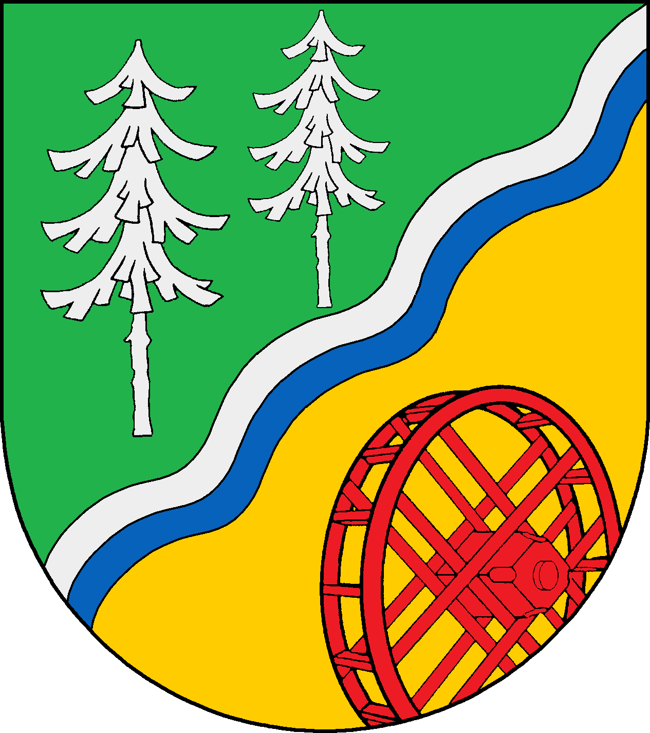 Coat of arms of the municipality Grande in Schleswig-Holstein, Germany.